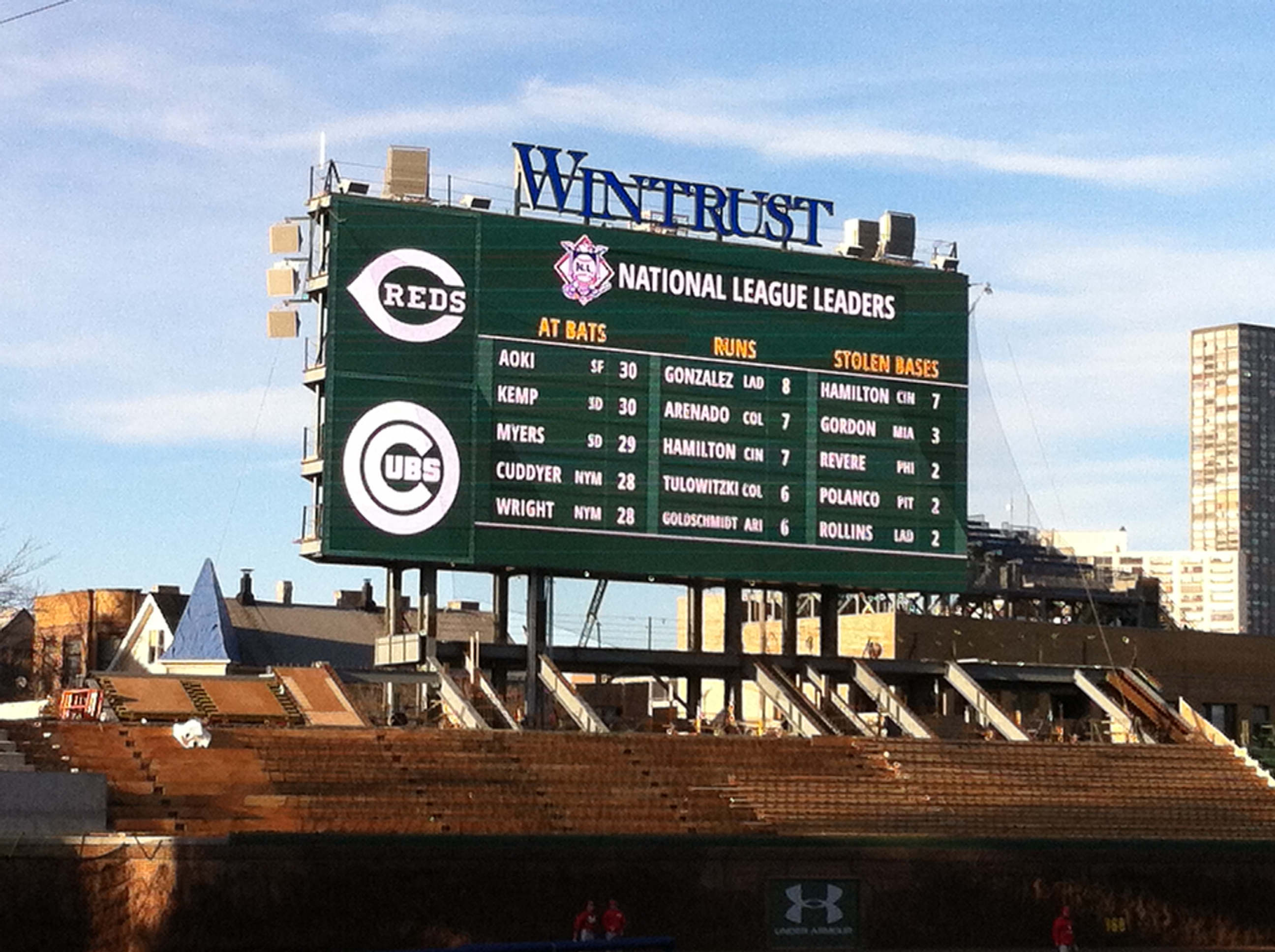 The new scoreboard added before the 2015 MLB baseball season during Project 1060.